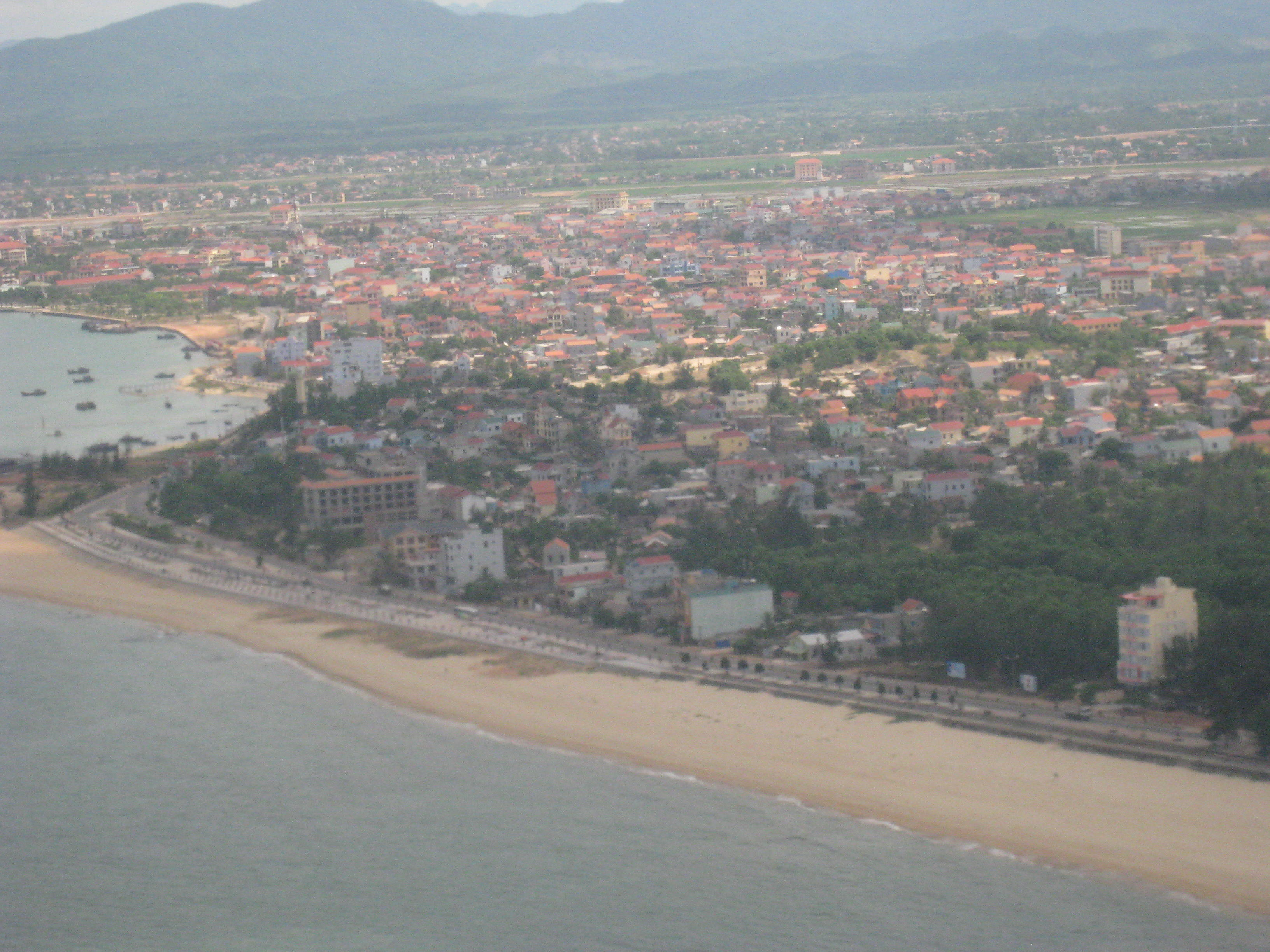 Dong Hoi, Quang Binh, Vietnam